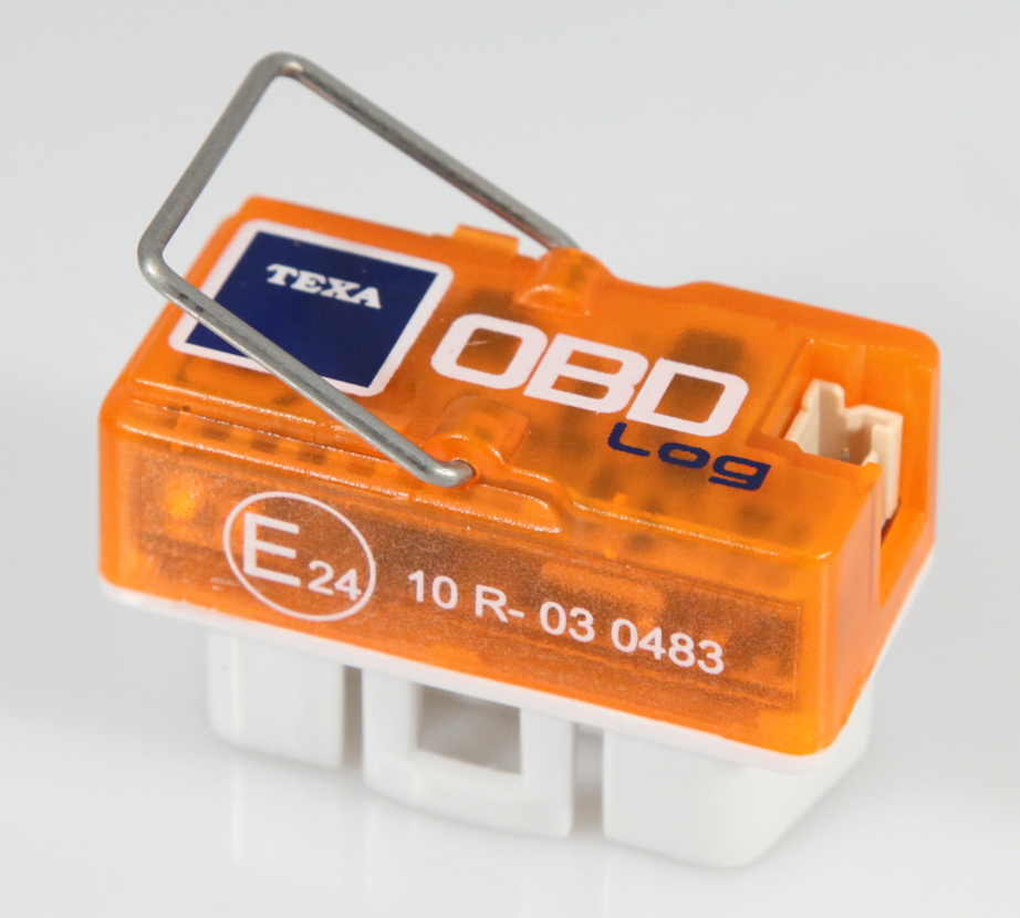 TEXA OBD log. Small data logger with a USB interface for transferring logs. Courtesy of